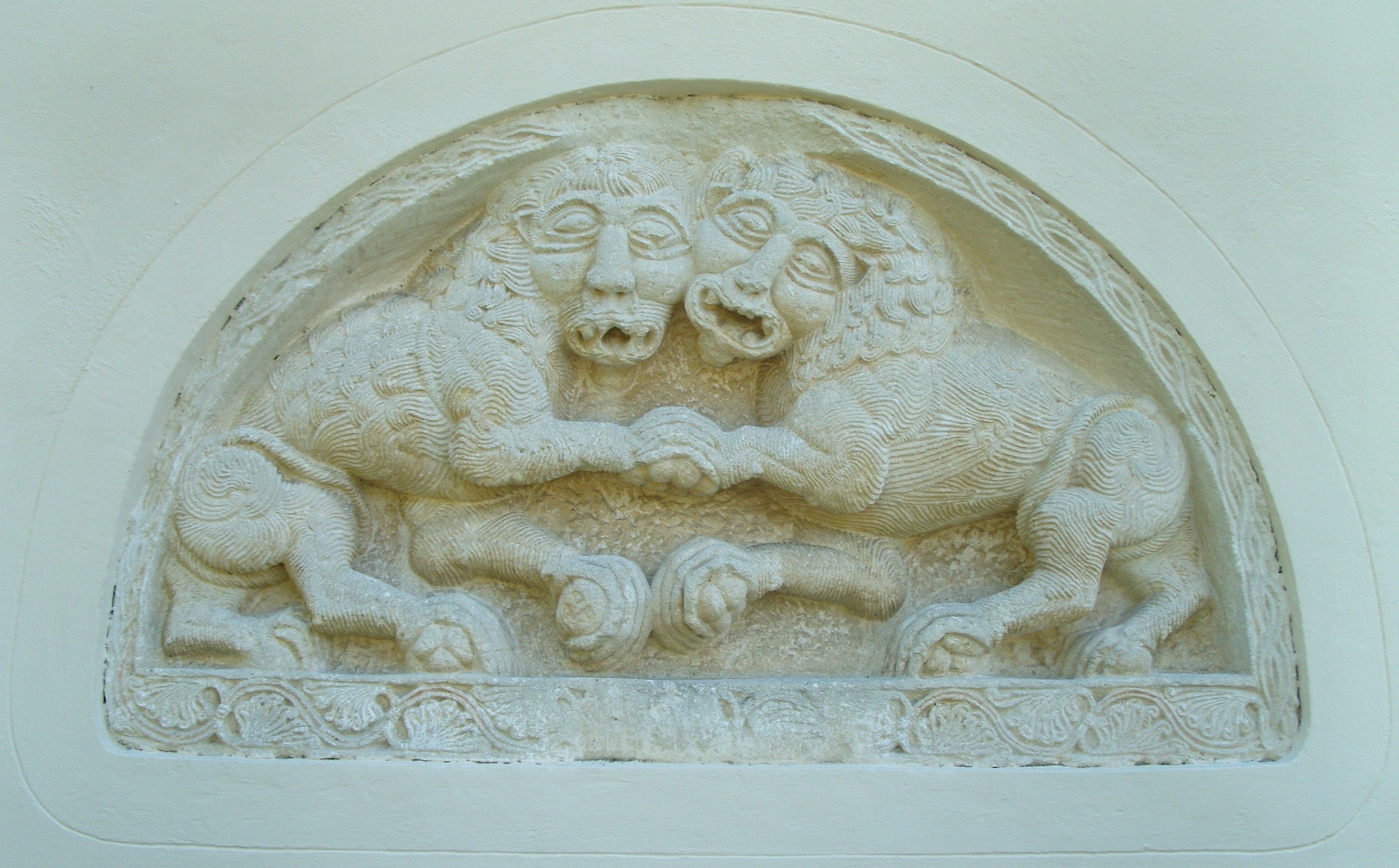 Church Gleinstätten (north side) - Romanesque lion relief (probably in the middle of the 13th century) - Styria / Austria